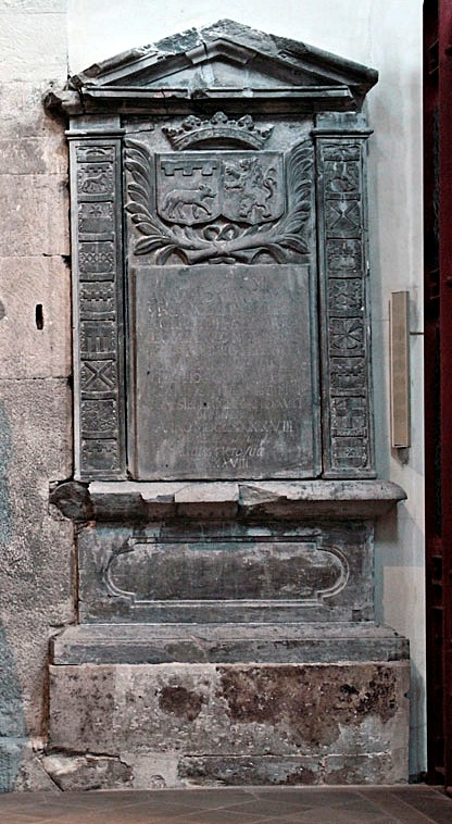 Epitaph der Äbtissin Anna Adriana Wolff von Metternich zur Gracht (1621–1698), St. Maria im Kapitol, Köln